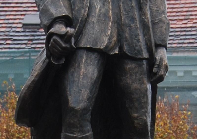 Monument of Jozef Pilsudskie in Kutno